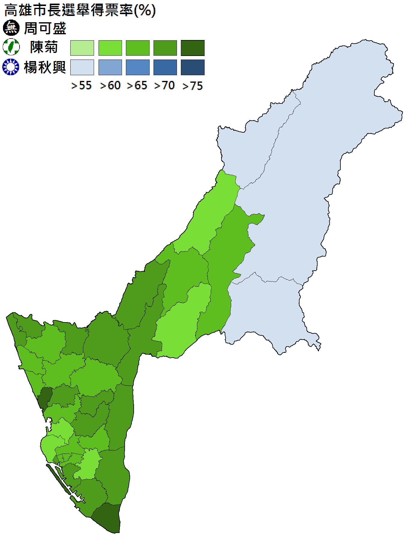 Kaohsiung 2014